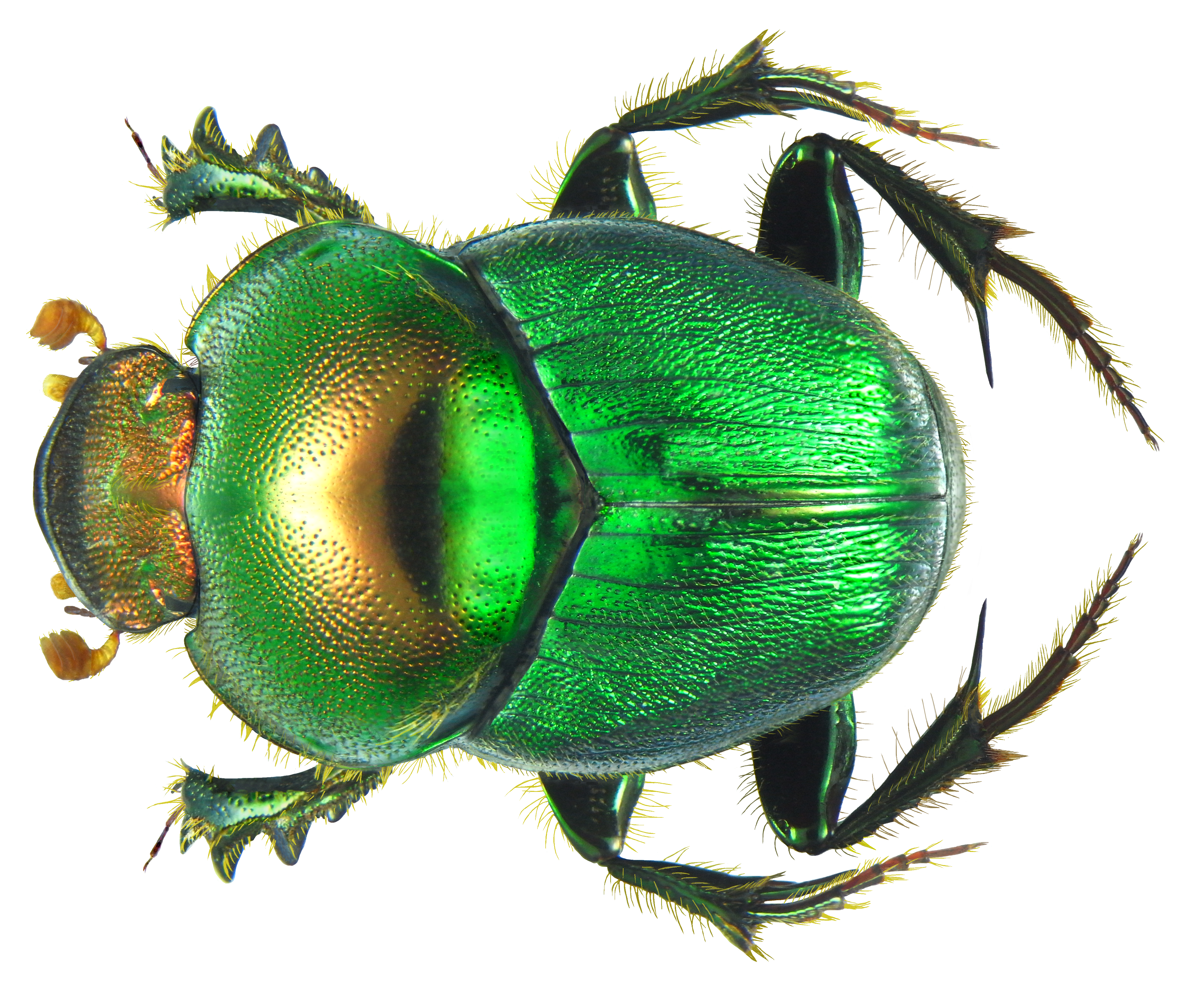 Family: Scarabaeidae Size: 12 mm (7,5-12,5 mm) Origin: Kenya, Tanzania, Simbabwe, Mozambique, South Africa Location: Kenya, Shimba Hills, 400-500 m leg.det. U.Schmidt, 20.XI.1991 Photo: U.Schmidt, 2013